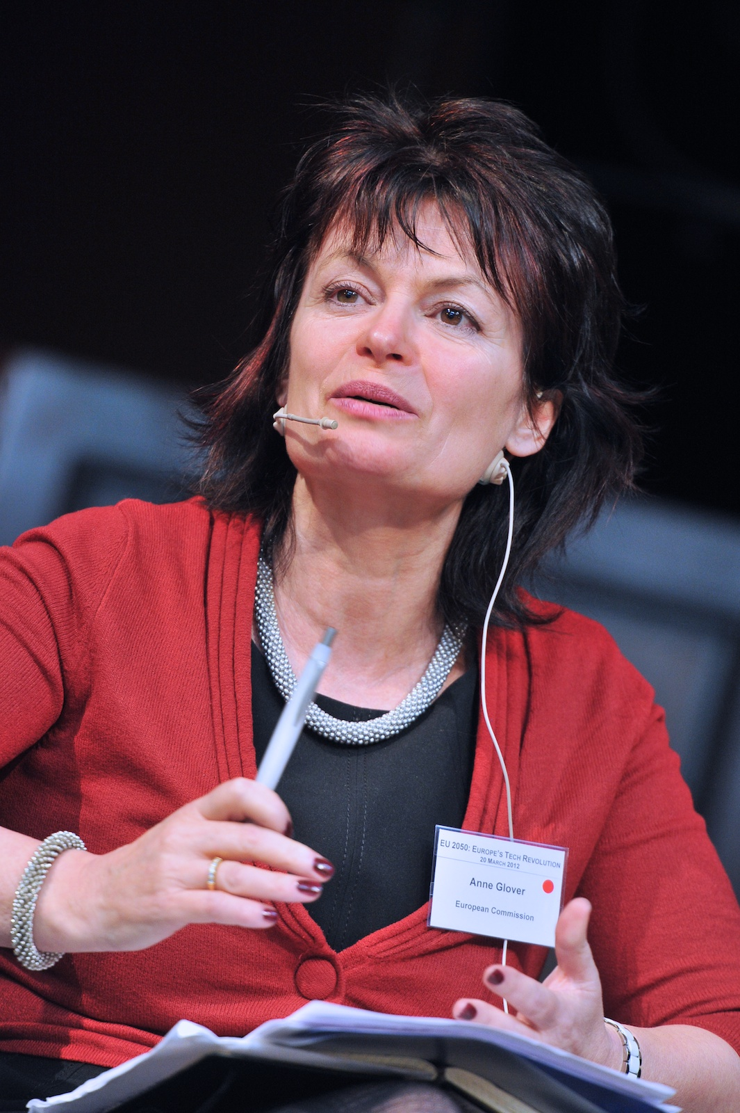 Friends of Europe - EU 2050: Europe's Tech Revolution